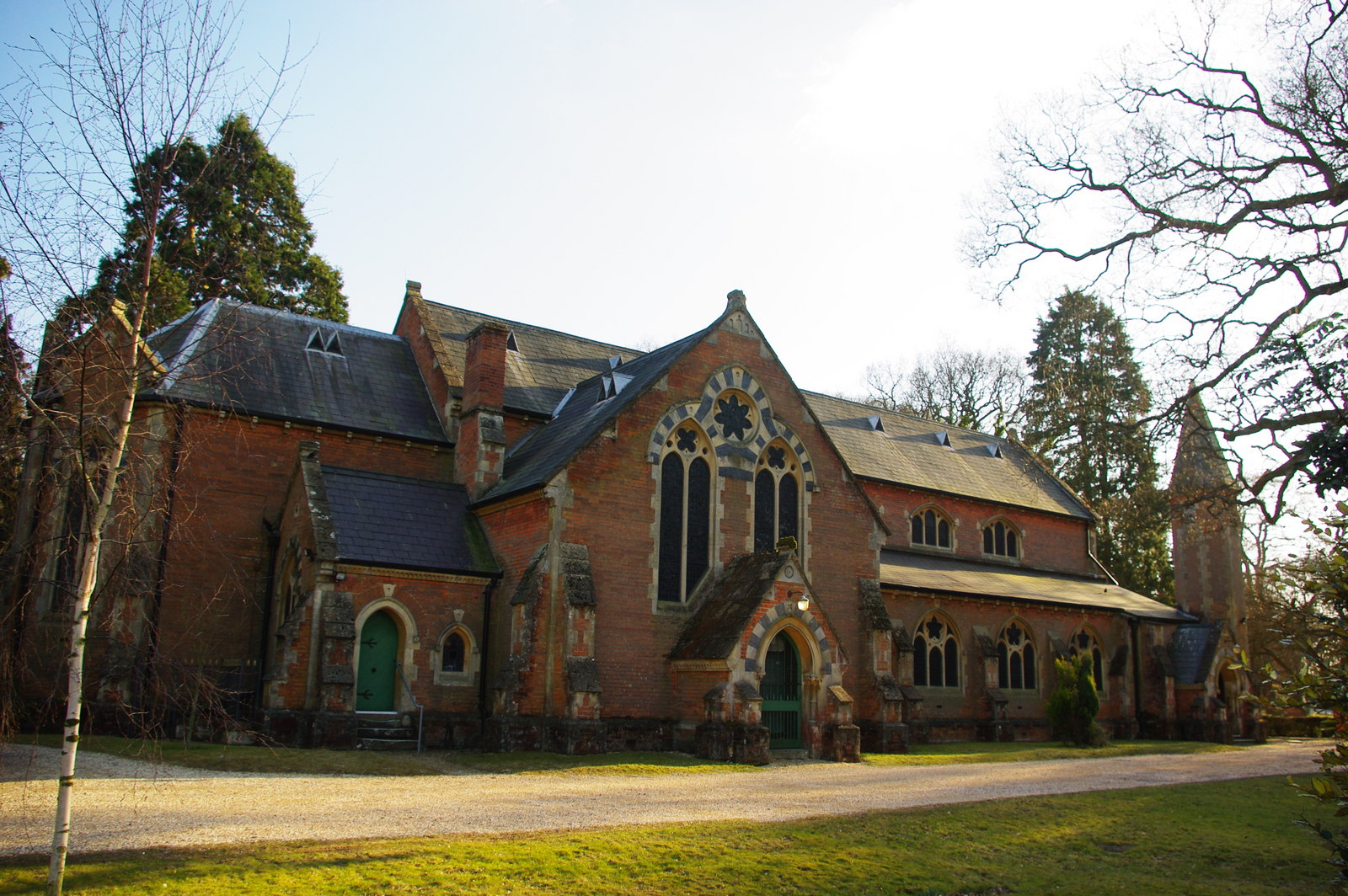 St John the Evangelist (NOT Baptist) parish church, Hartley Wintney, Hampshire